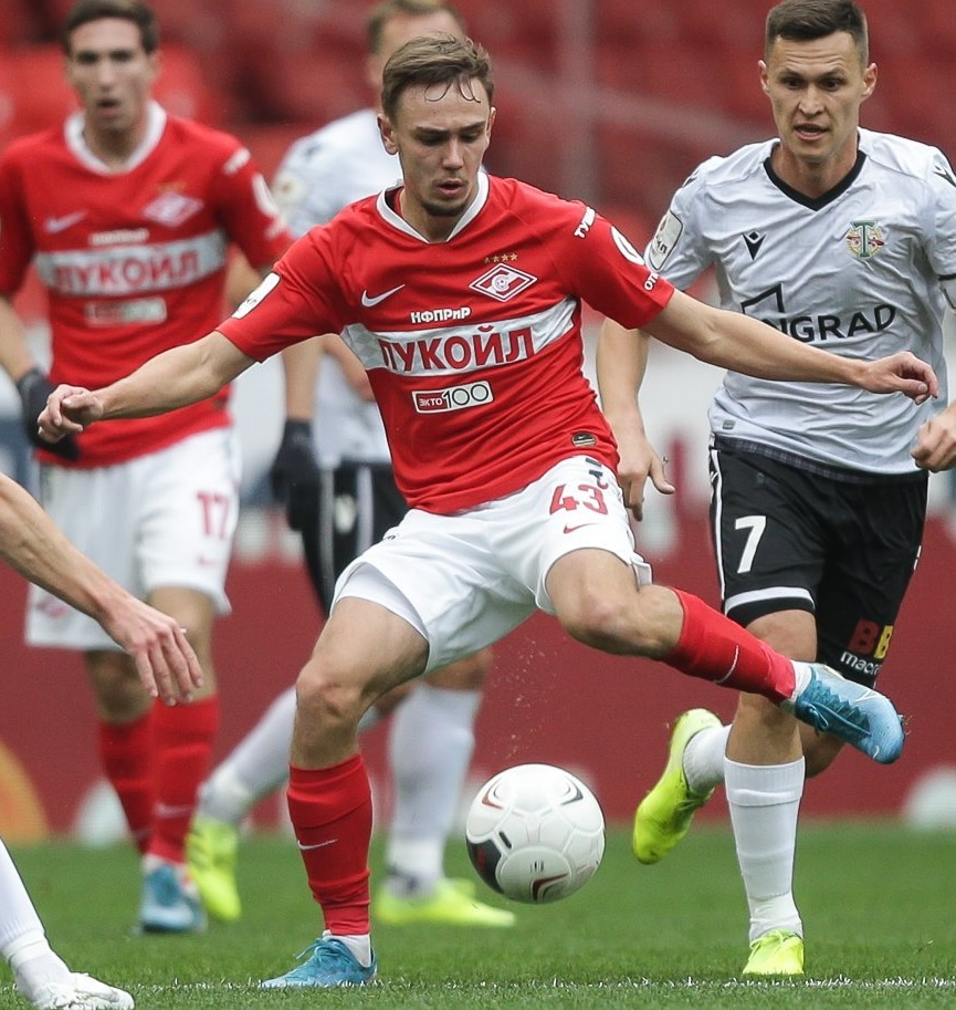 Pyotr Volodkin with FC Spartak-2 Moscow in a game against FC Torpedo Moscow.